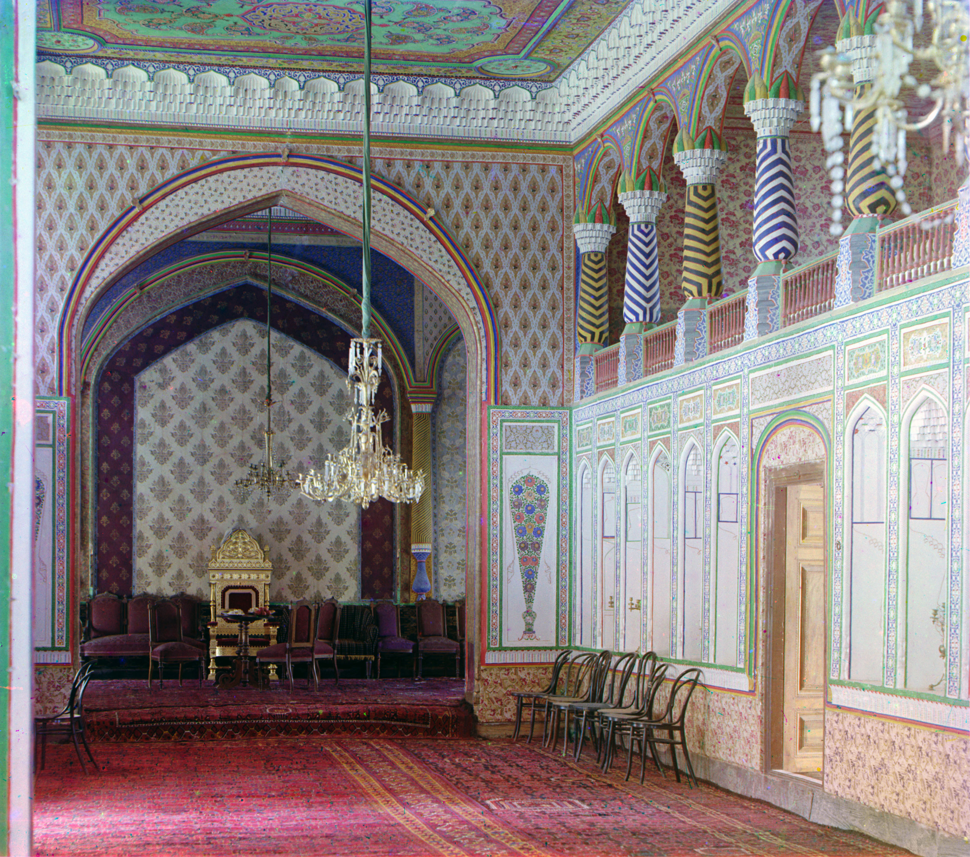 In the country palace of the Bukhara Emir. Bukhara.